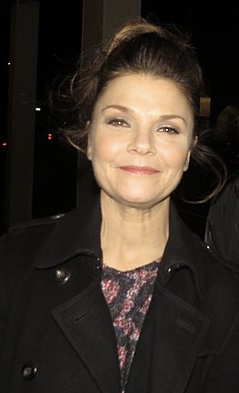 Star of Law & Order Criminal Intent, Oz, and What About Bob? 3/7/2016.